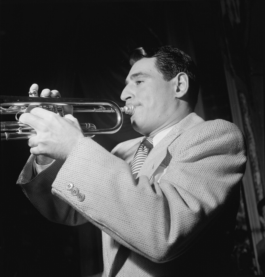 Ray Anthony